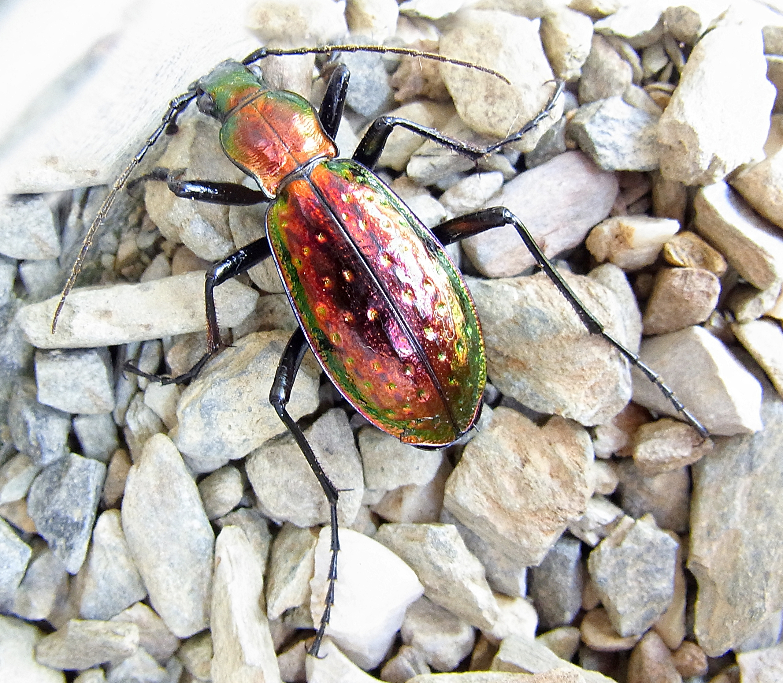 Carabus rutilans from Spain, Catalonia, west of Manresa in moist valley